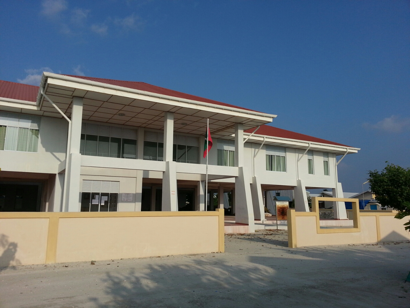 Administrative building of Dhuvaafaru where the island council operates.